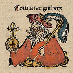 Woodcut from the Nuremberg Chronicle